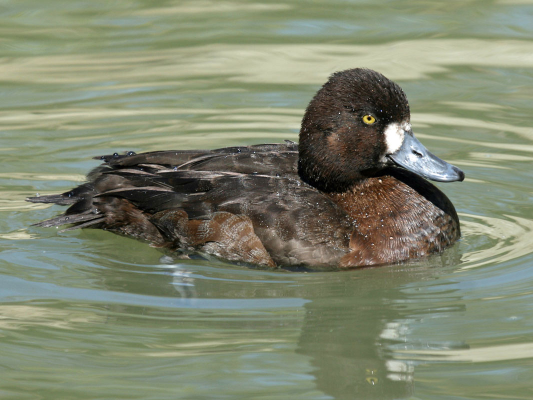 ♀ Lesser Scaup (Aythya affinis) at Sylvan Heights Waterfowl Park in Scotland Neck, North Carolina.